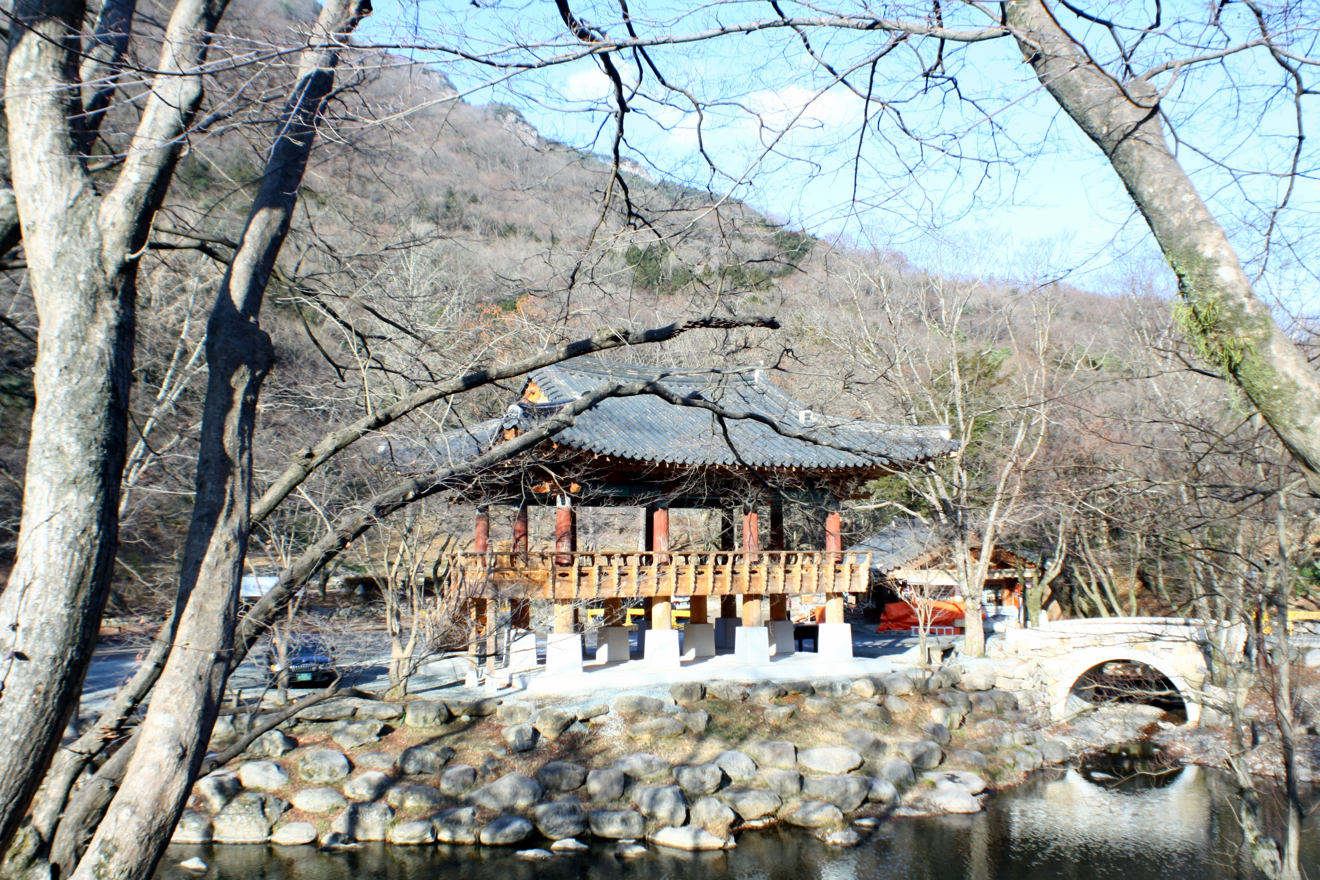 Baekyangsa